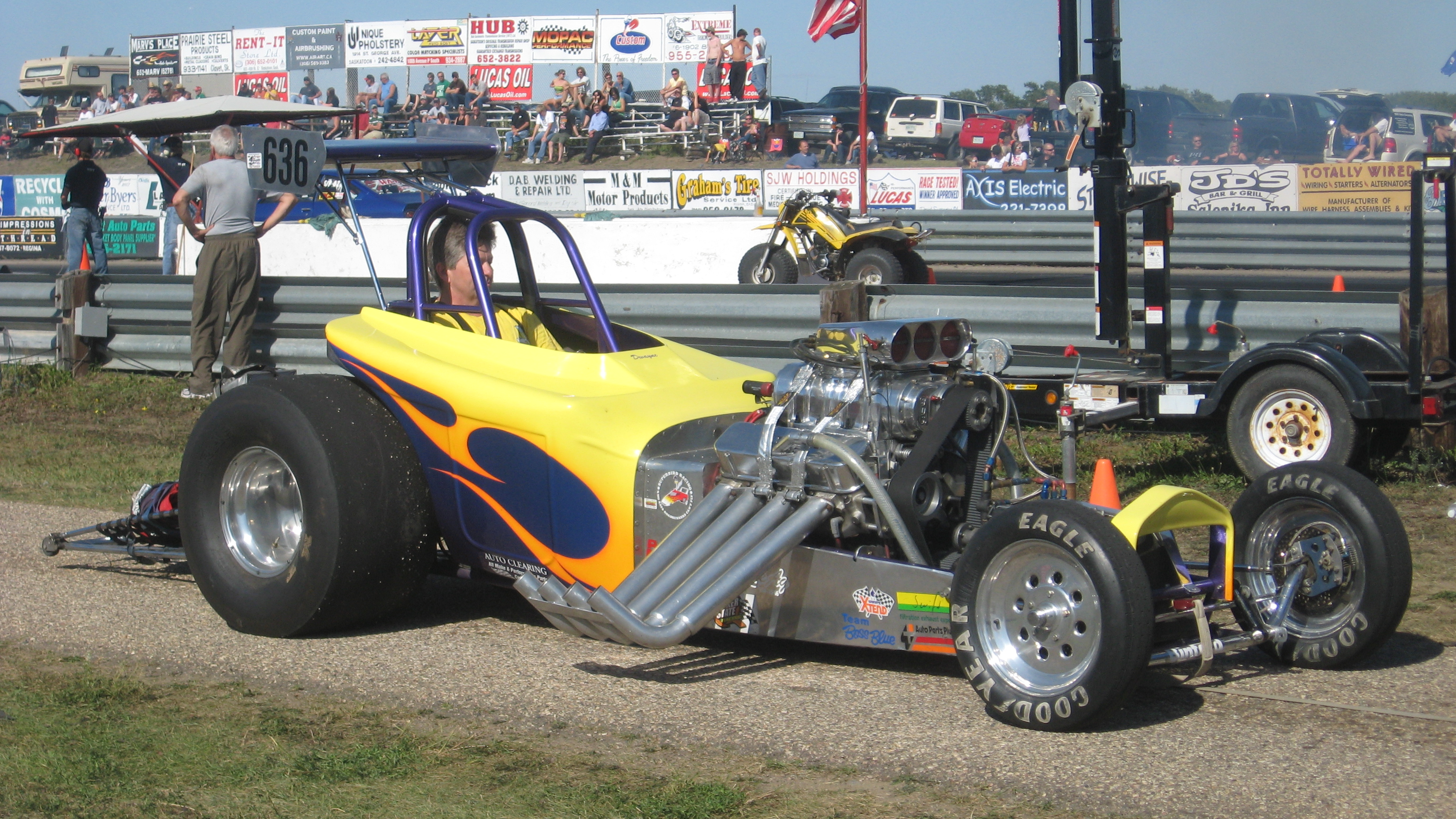 '27 T Altered dragster, shot at local drag strip